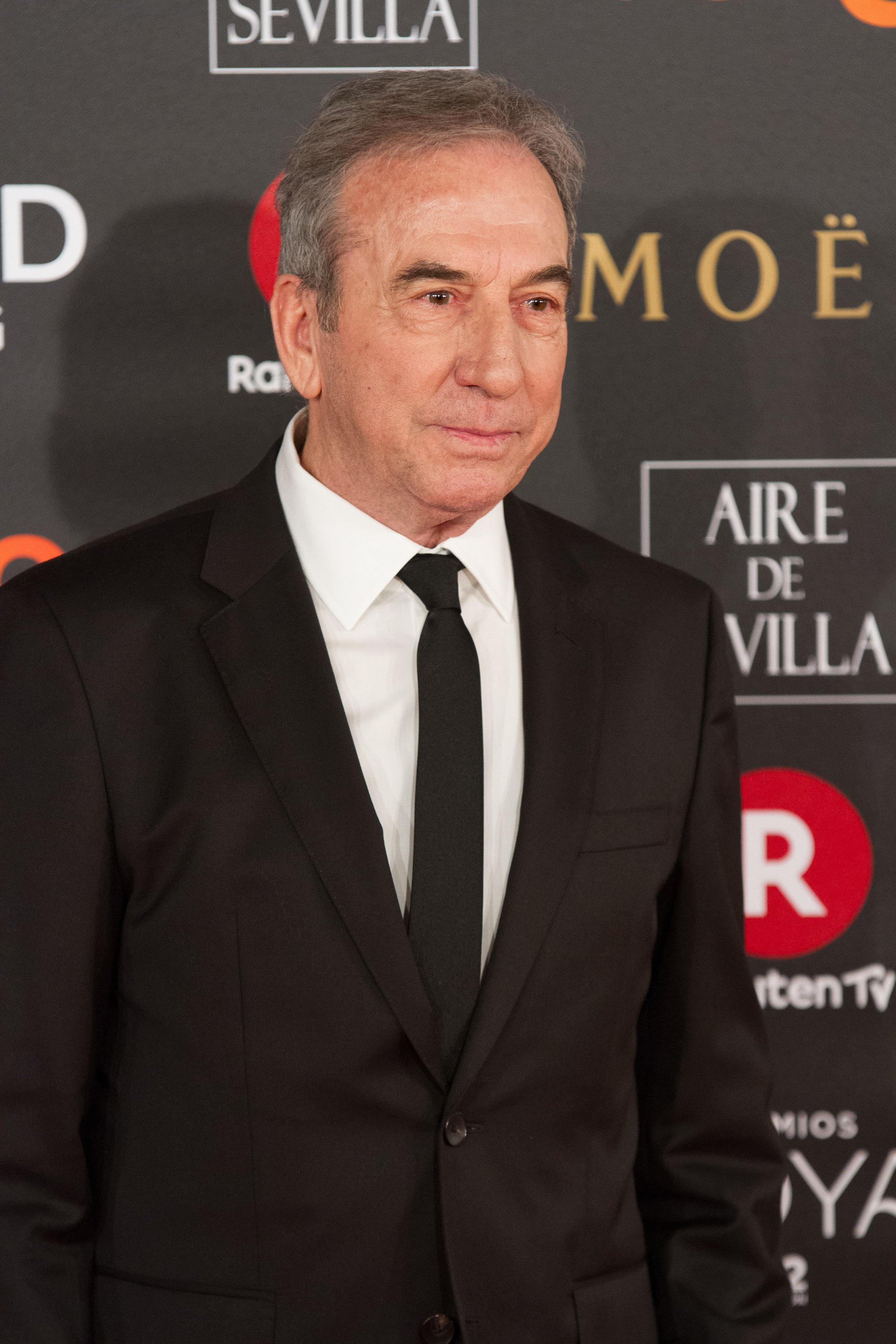 32nd Goya Awards, 2018.